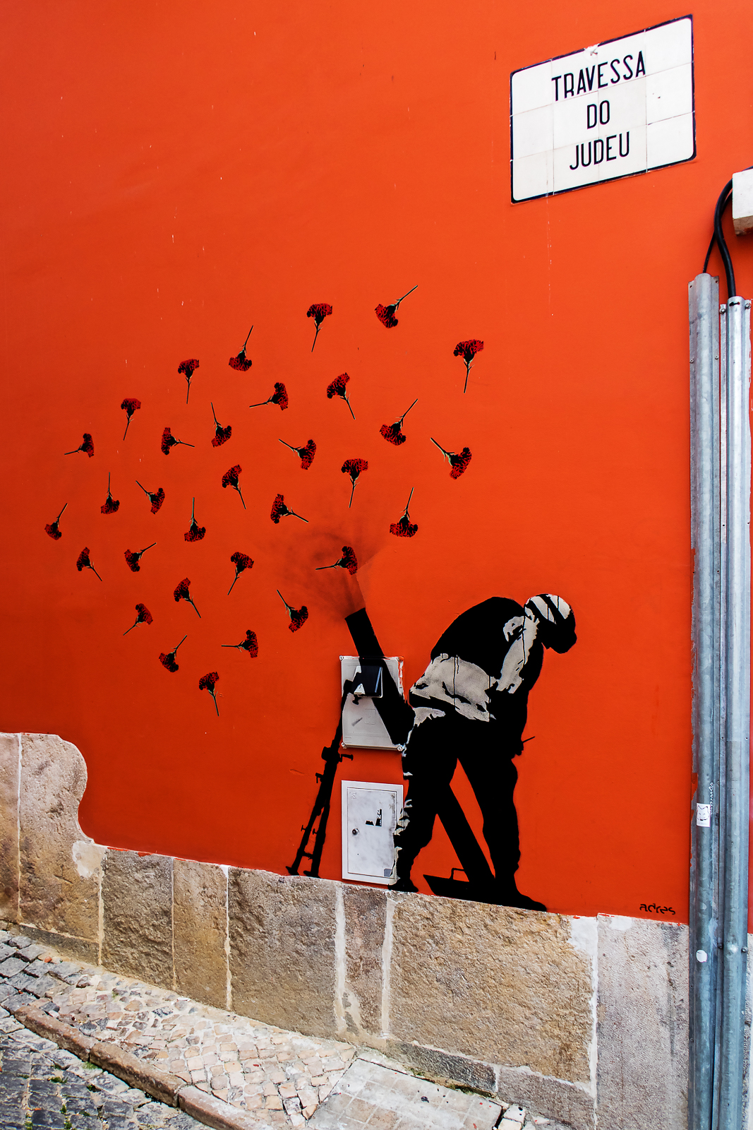 Lisboa, 12/03/17. Carnations fired from a mortar, mural attributed to Banksy, alluding to 1974 Carnation Revolution.